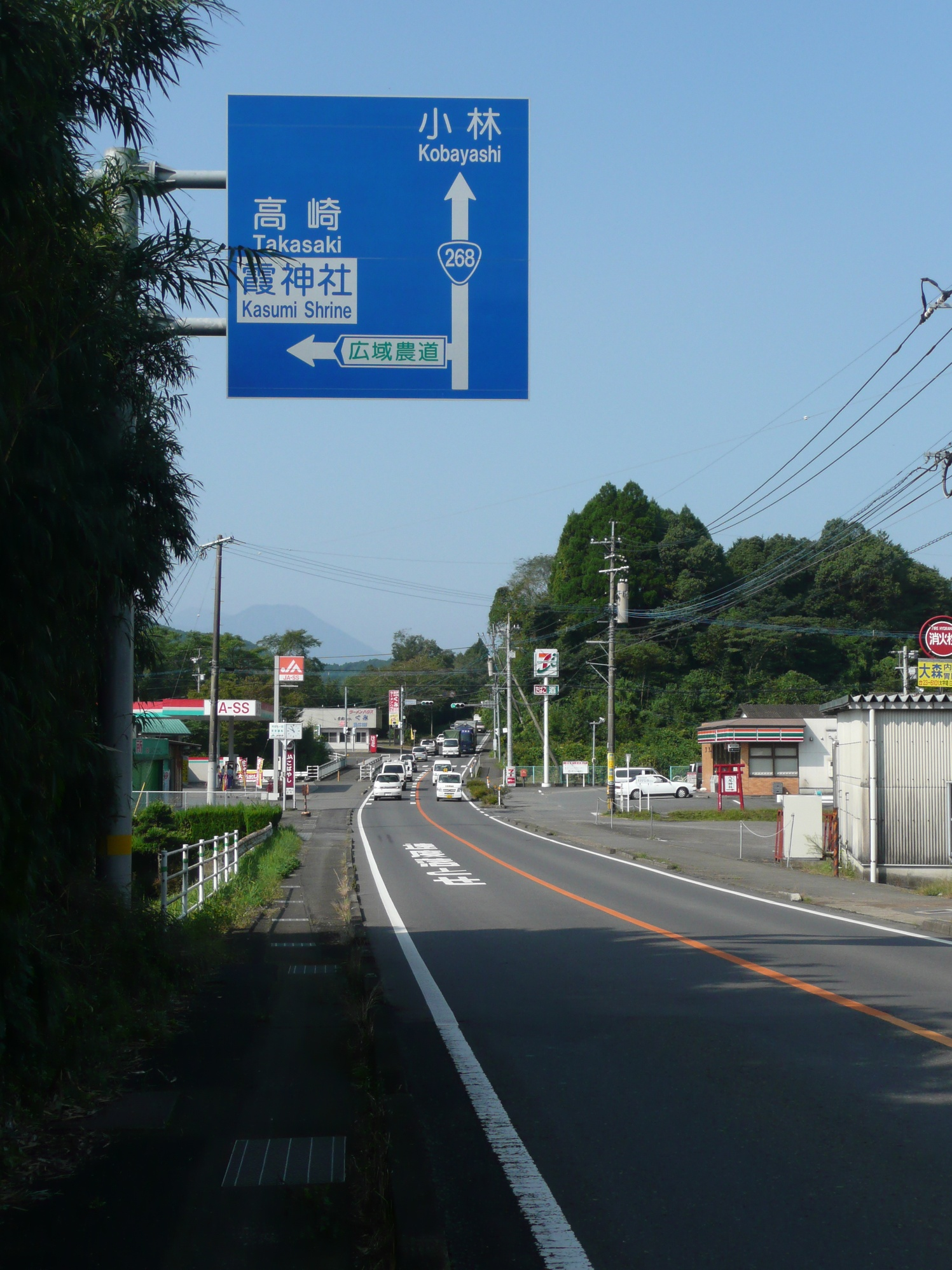 National Route 268 (Nojiri Town, Kobayashi City, Miyazaki, Japan)